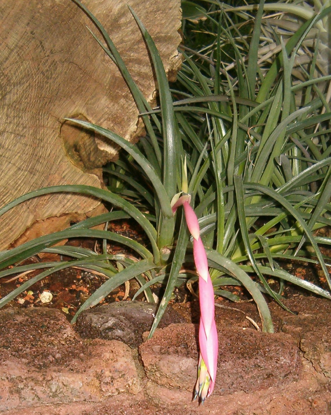 Location: Botanical Gardens Berlin Dahlem